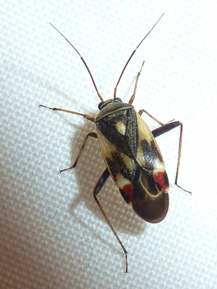 A mirid, Polymerus (Poeciloscytus) unifasciatus that flew inside, attracted to the light at night. Winchester, Hampshire, UK, 5th August 2012. OS grid ref: SU4627. Note - placement on Flickr map not exact. I've shown it in the middle of the housing estate rather than at the precise address.